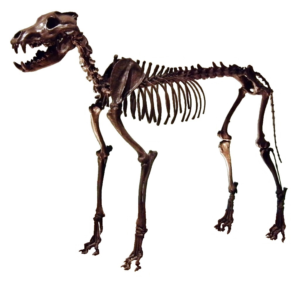 Skeleton of Dire wolf (Canis dirus). Exhibit in the National Museum of Nature and Science, Tokyo, Japan.